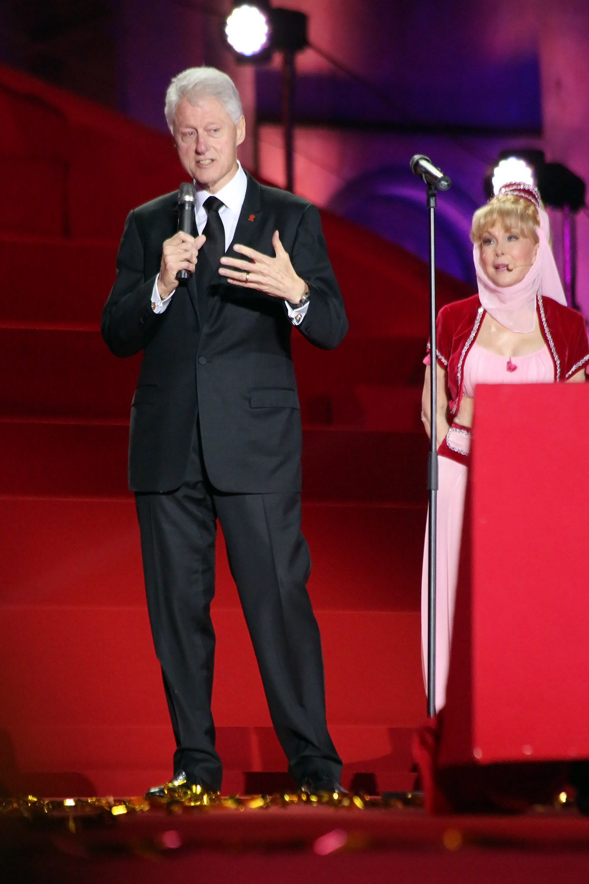 Barbara Eden and Bill Clinton (Clinton Foundation - Health Access Initiative), opening show of Life Ball 2013 at the city hall of Vienna, Vienna, Austria.